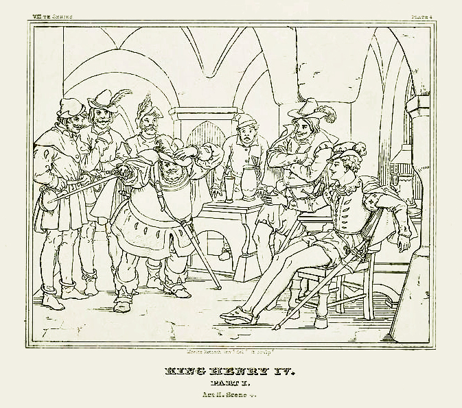 Henry IV Part 1, Act II, Scene 4 from Moritz Retzsch's, Gallery to Shakespeare's dramatic works (New-York, 1853)